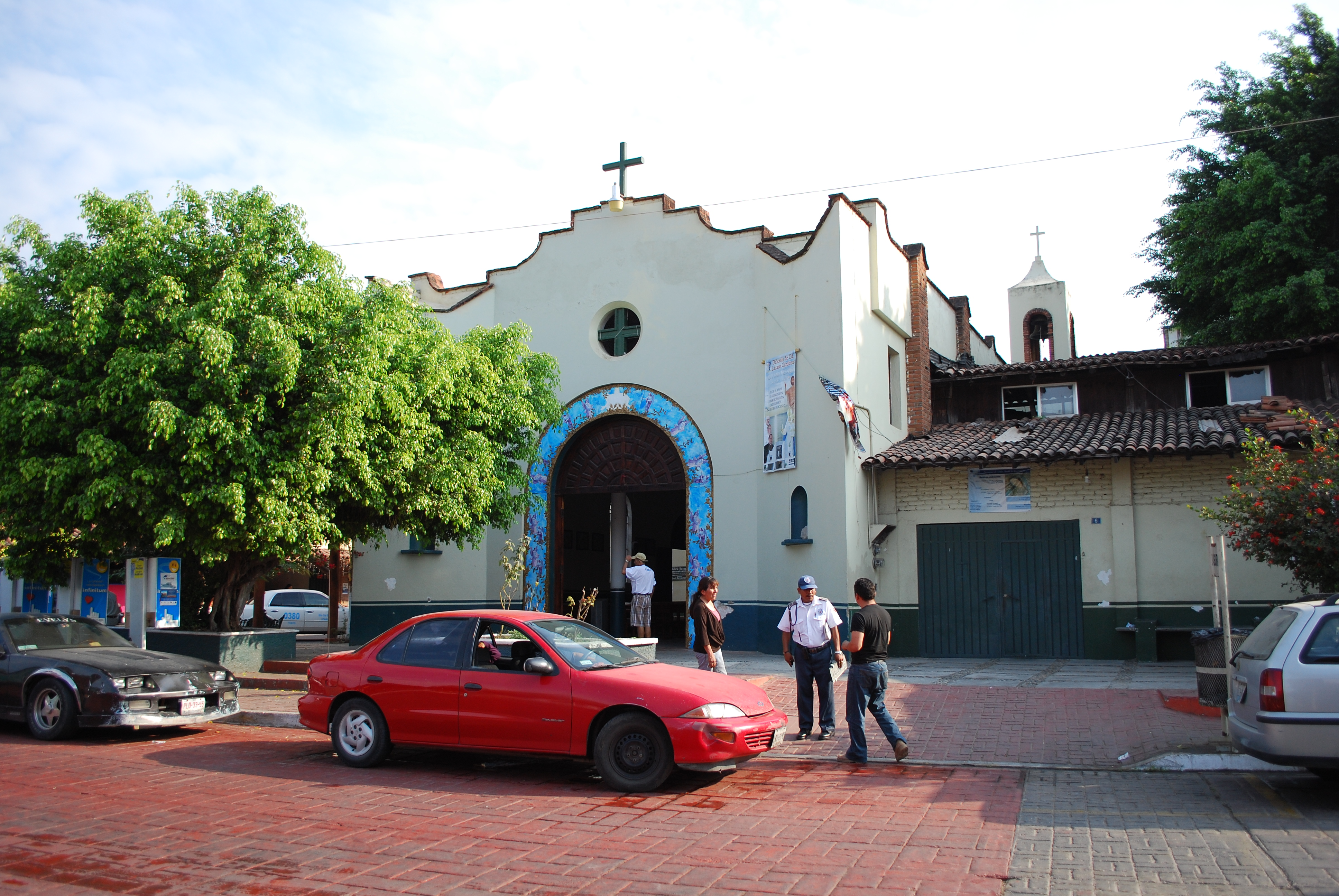 Church on 5 de Mayo Street in Zihuatanejo, Mexico